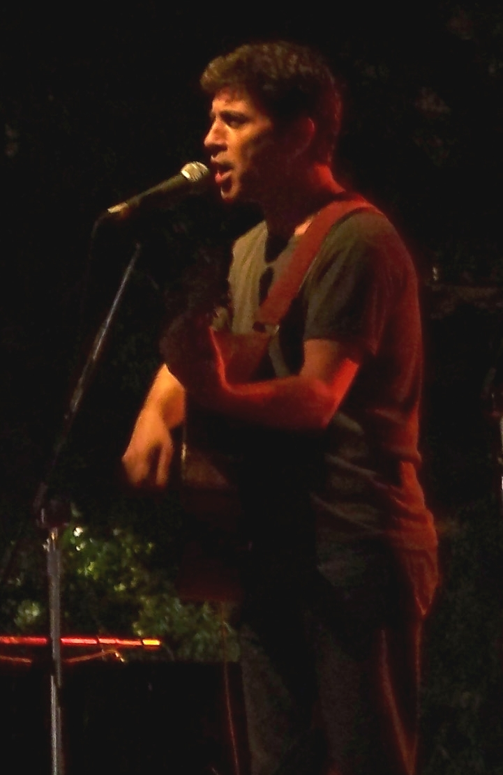 Greek singer-songwriter Sokratis Malamas (Σωκράτης Μάλαμας), July 2007.